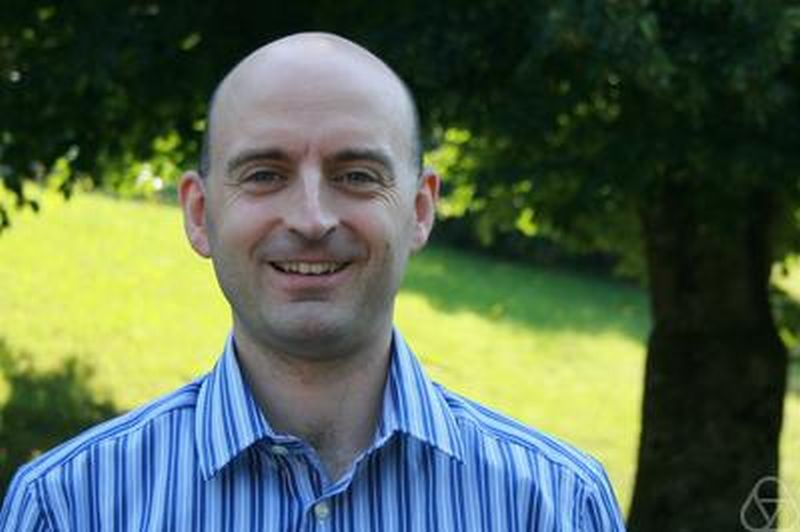 Camillo De Lellis, Oberwolfach 2012